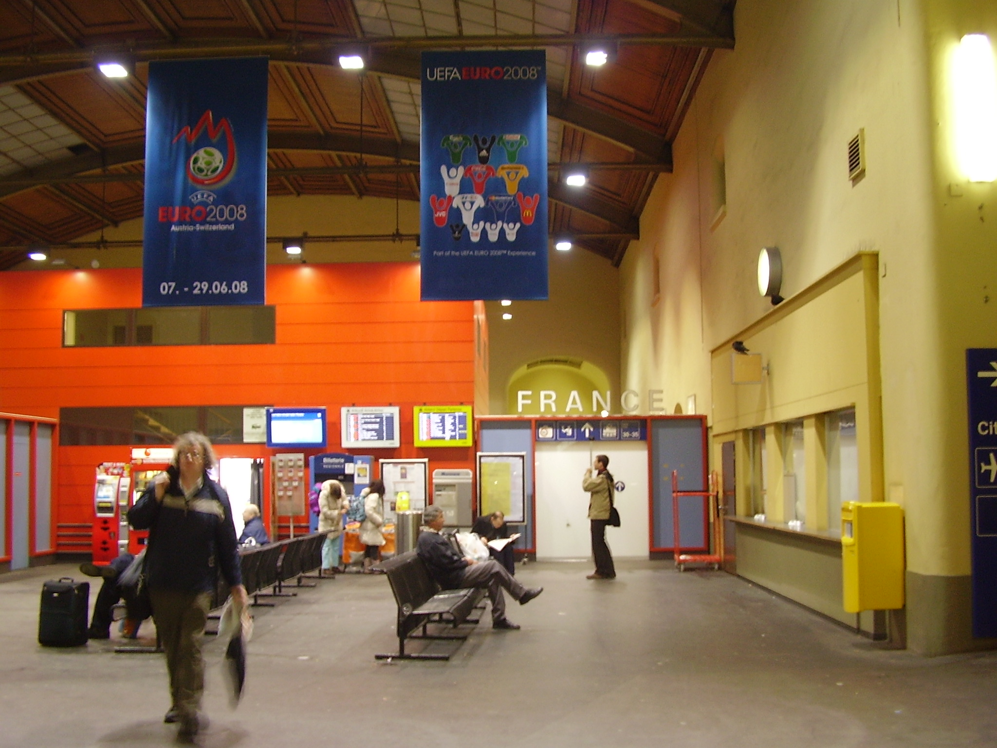 Railwaystation Basel SNCF